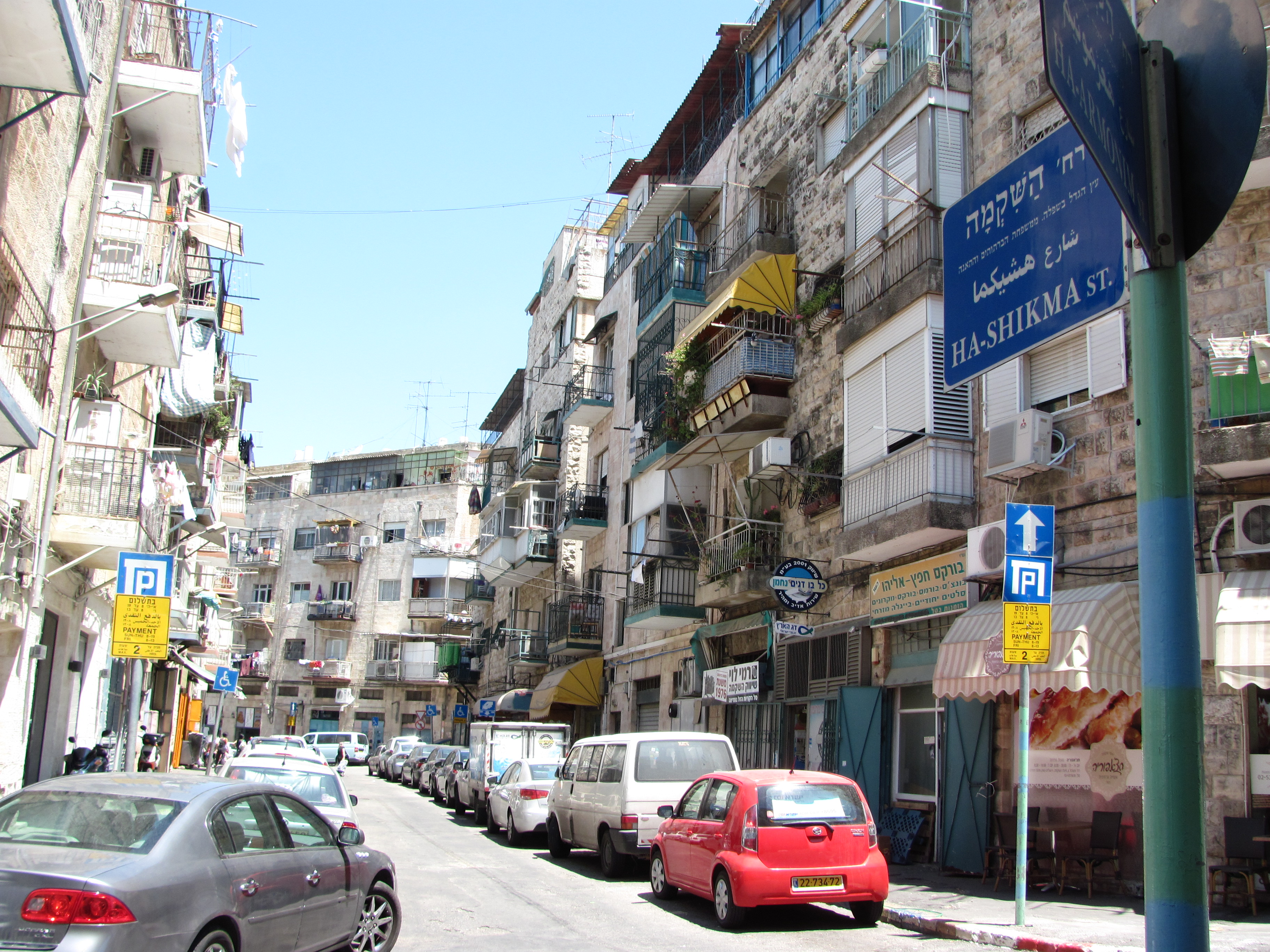 View of Hashikma Street in the Mahane Yehuda Market district of Jerusalem. The original Rami Levi Shivuk Hashikma store is fourth from the right side of the picture.